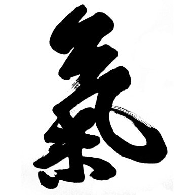 Qi character calligraphy written by my teacher and placed here with his permission.